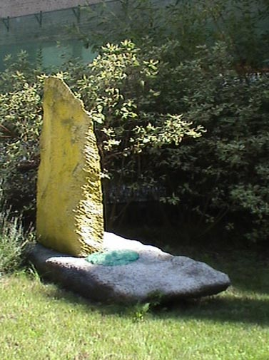 Statue – Ildikó Várnagy: Sun and water. Miskolc, Hungary